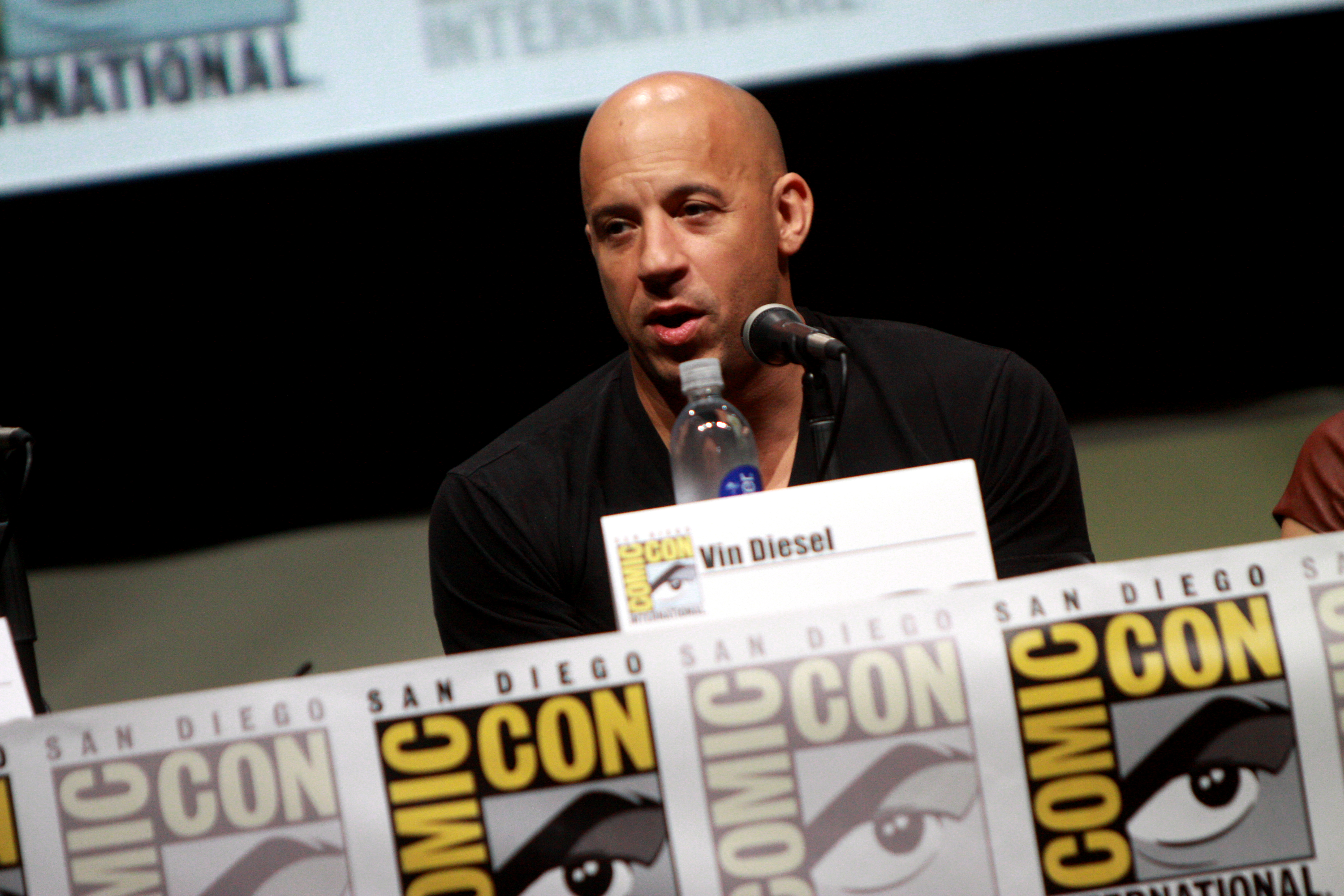 Vin Diesel speaking at the 2013 San Diego Comic Con International, for "Riddick", at the San Diego Convention Center in San Diego, California.